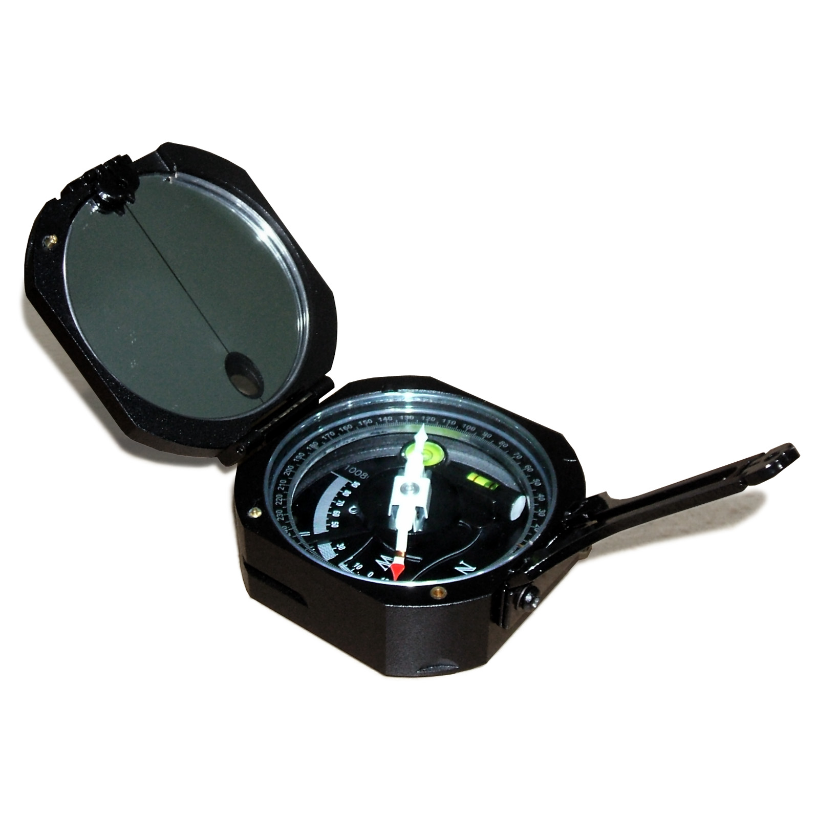 This is a digital enhanced picture of a Brunton Compass.